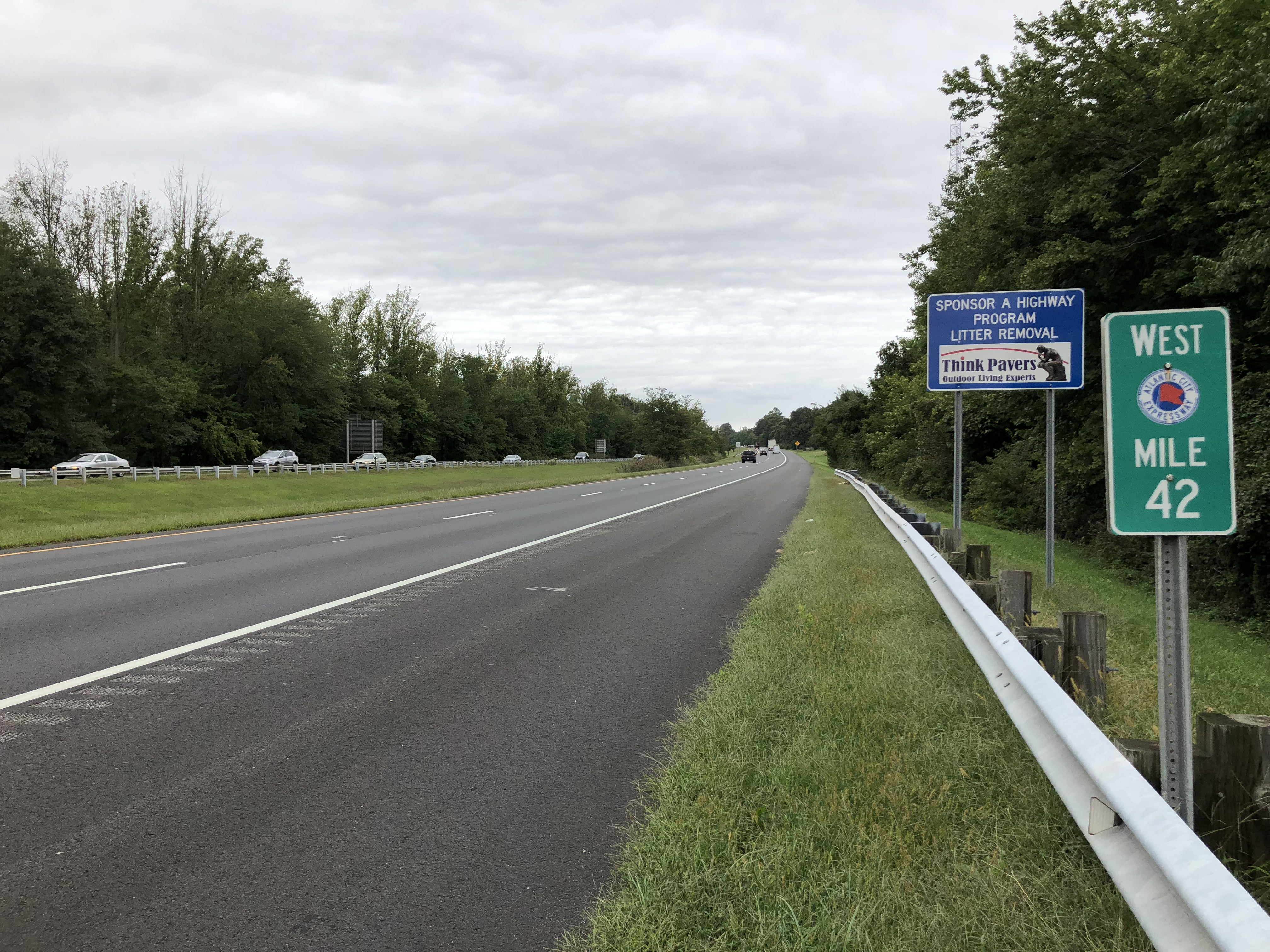 View west along New Jersey State Route 446 (Atlantic City Expressway) between Exit 41 and Exit 44 in Gloucester Township, Camden County, New Jersey